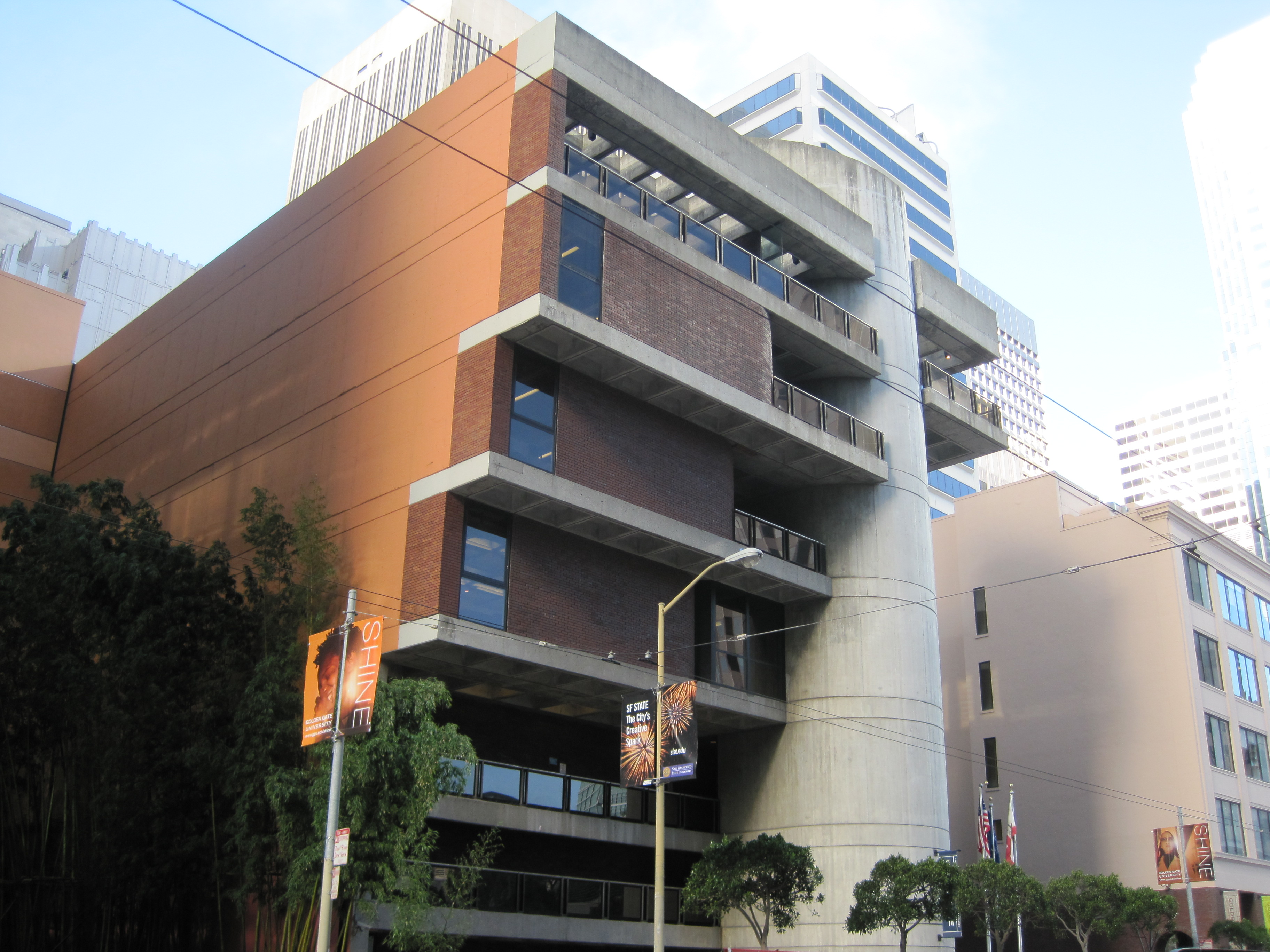 Golden Gate University in San Francisco, California.